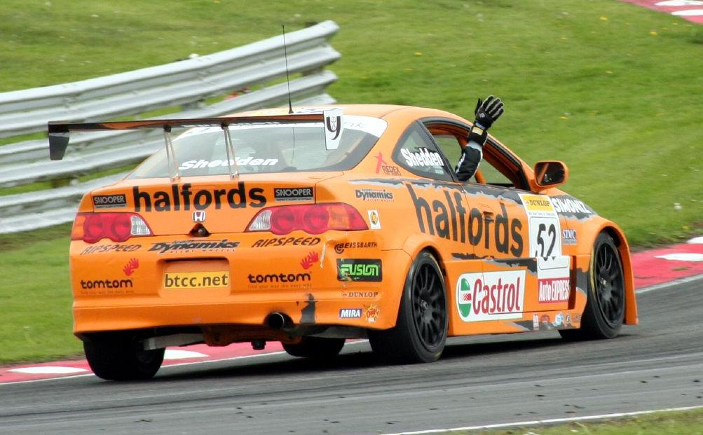 Gordon Shedden driving for Honda at the Oulton Park round of the 2006 British Touring Car Championship.